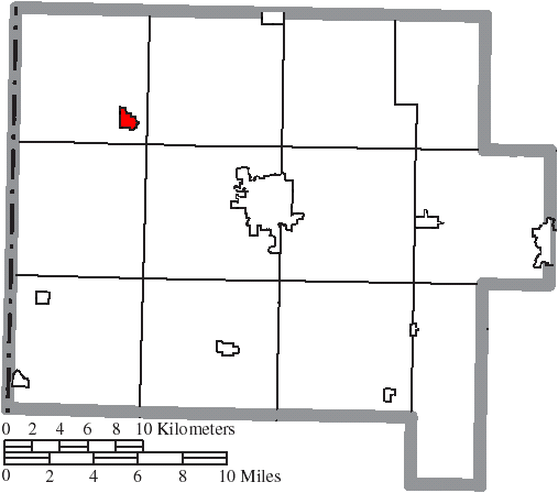 Map of the municipal and township boundaries of Van Wert County, Ohio, United States, as of the 2000 census, with the location of the village of Convoy highlighted. Township borders are shown only in unincorporated areas in order to differentiate incorporated and unincorporated areas more clearly.